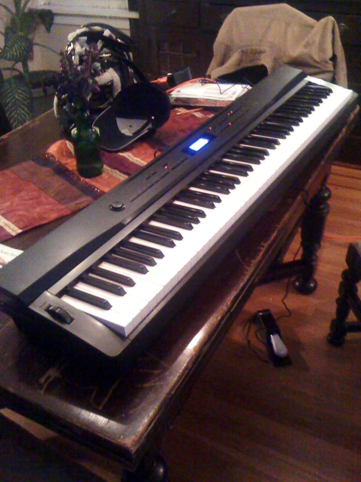 Casio Privia PX-330 Posted via web from Keith's posterous